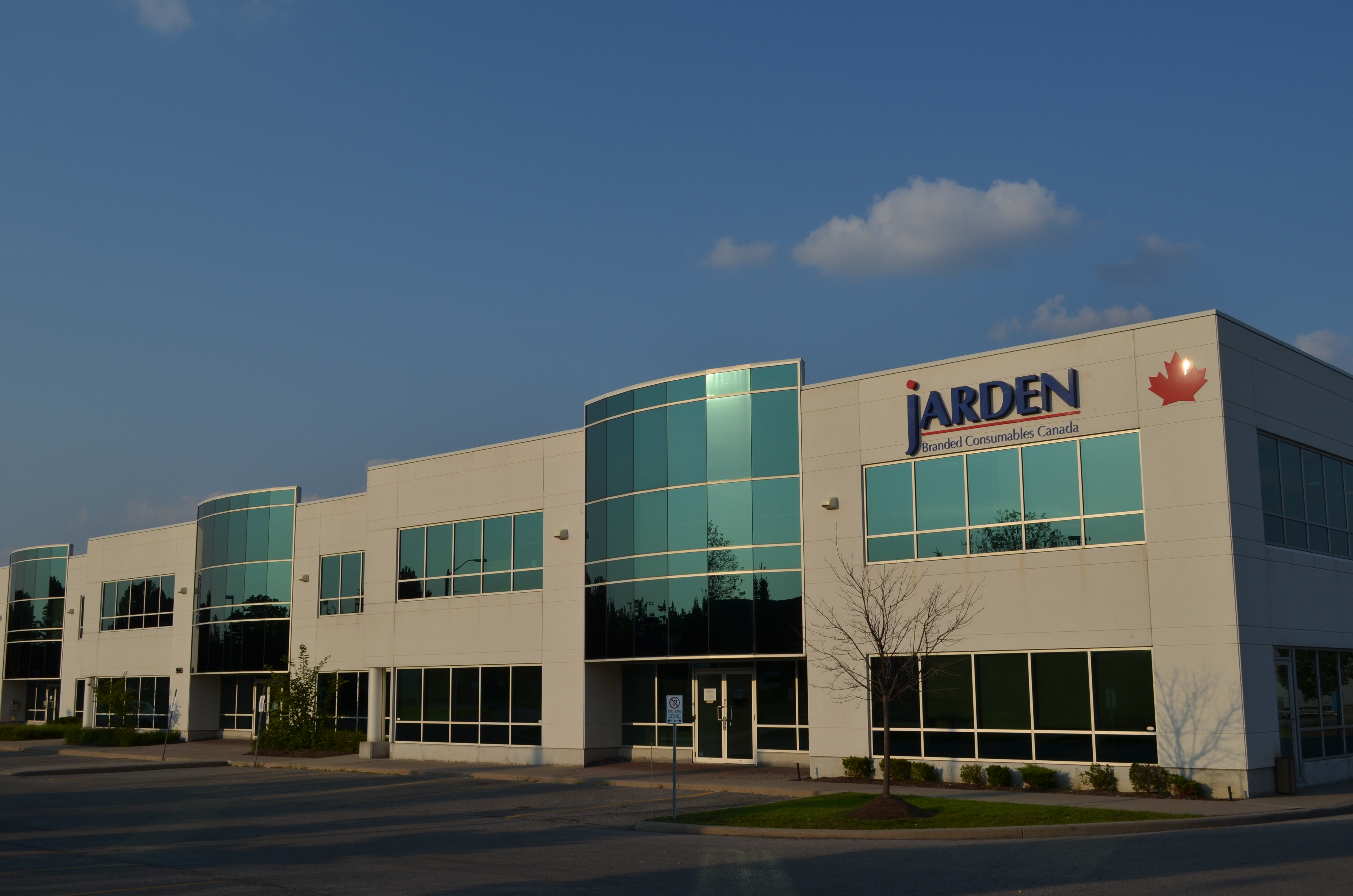 Jarden Branded Consumables, 88 E Beaver Creek Rd, Richmond Hill